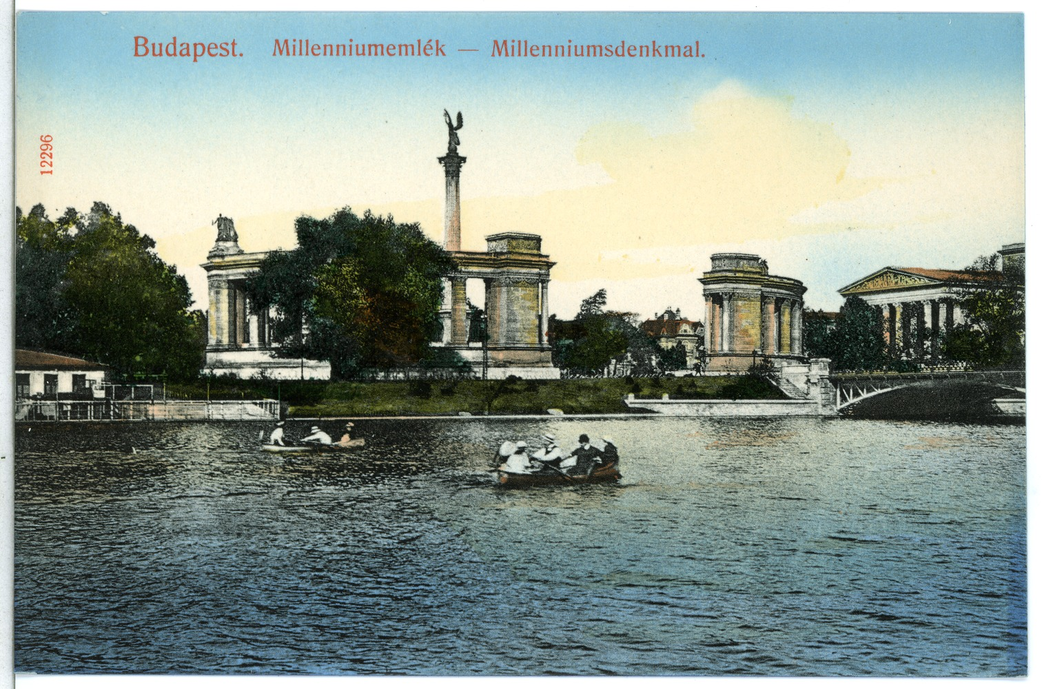 This postcard is from publisher Brück & Sohn in Meißen ( This postcard has a unique number 12296 and is available in a higher resolution at the publisher. This images was uploaded in a cooperation project between Wikipedians and the publisher.